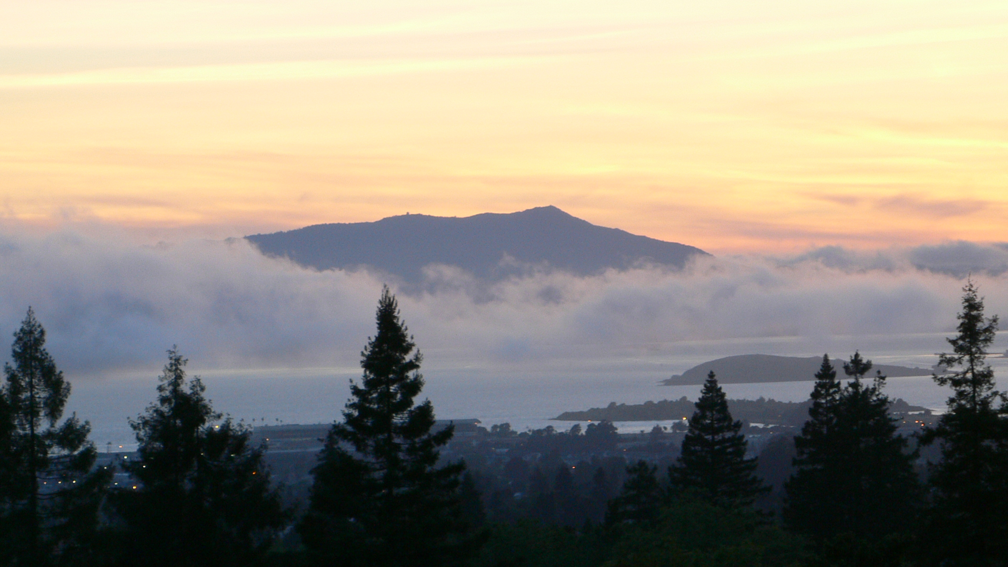 Mount Tam seen from Berkeley foothills, in late spring, after a hot day.